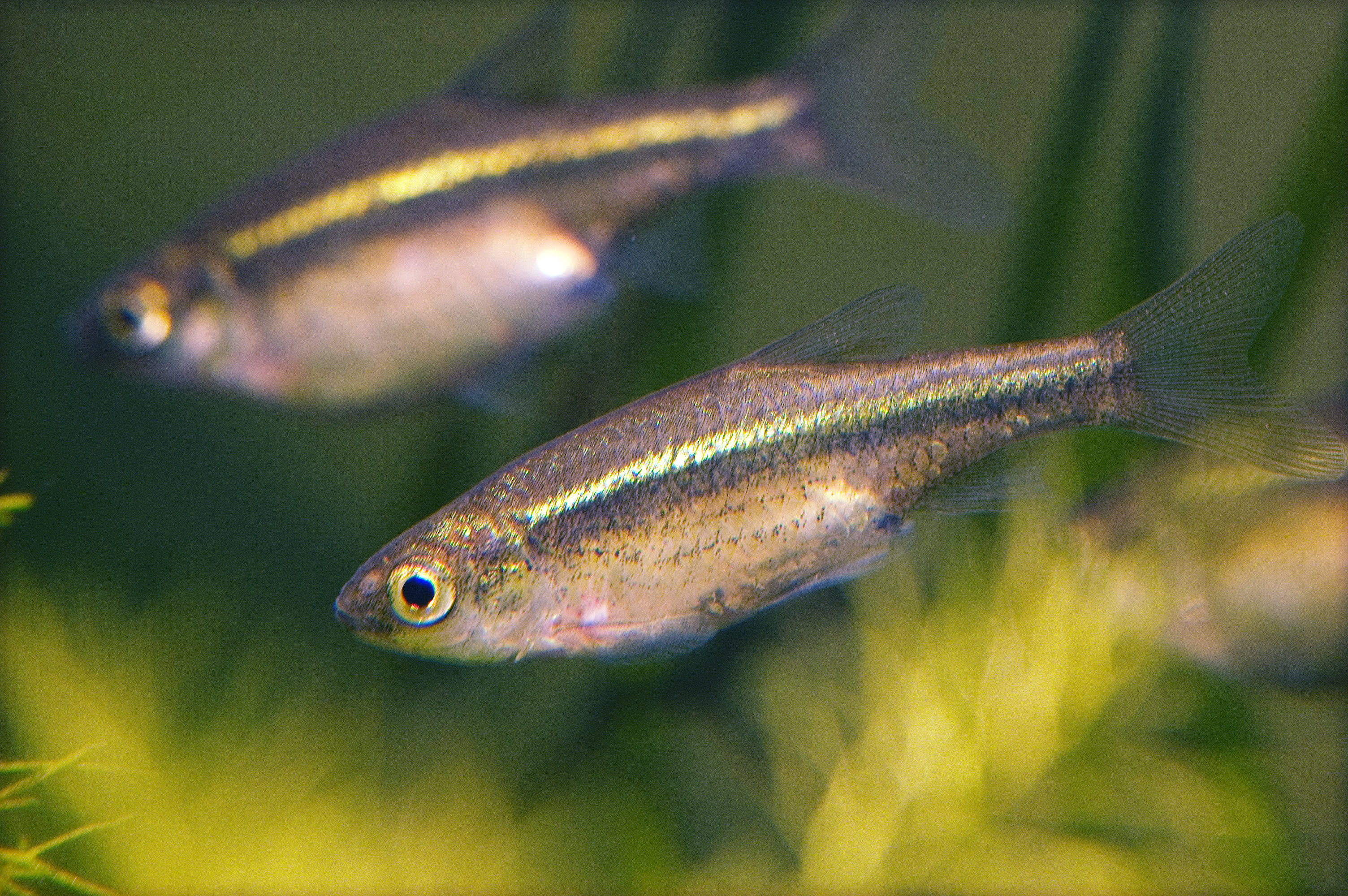 Kawabatamoroko, Hemigrammocypris rasborella, from Fujieda, Shizuoka, Japan.